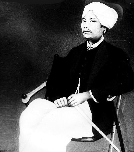 freedom fighter of manipur